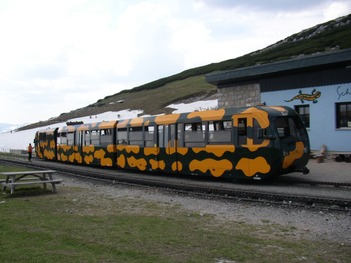 Diesel train "Salamander" of the Schneeberg cog railway